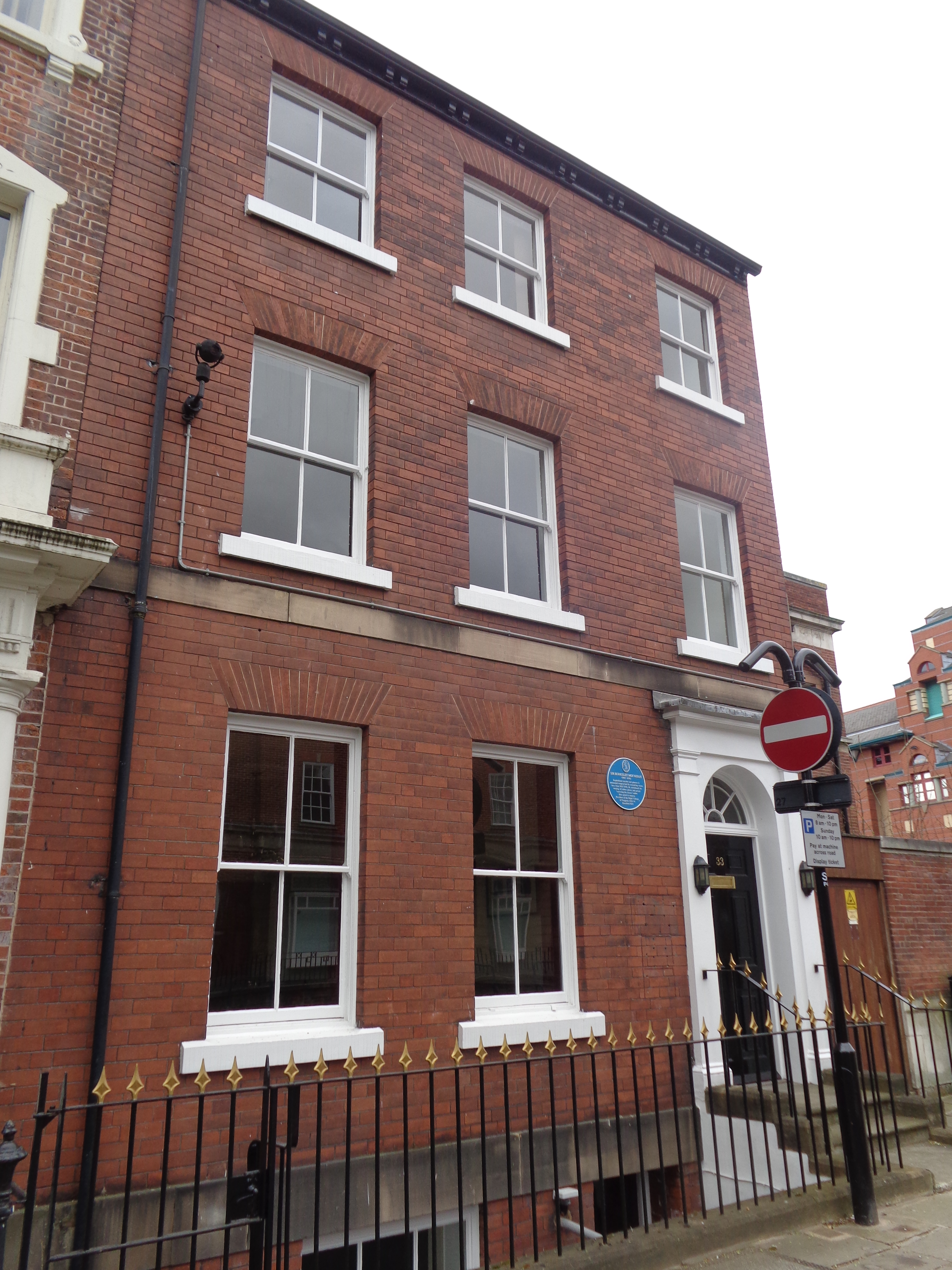 Sir Berkeley Moynihan Consulting Rooms, Park Place West, Leeds, West Yorkshire. Taken on the afternoon of Saturday the 12th of April 2014.